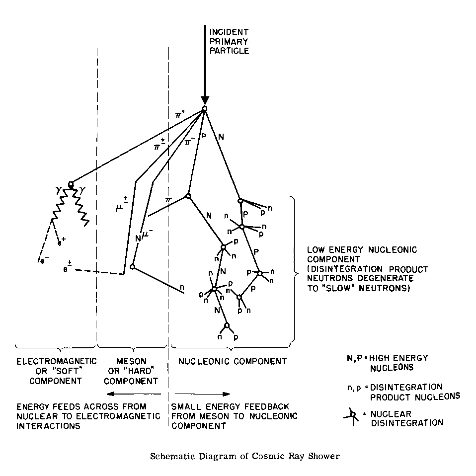 A cosmic particle colliding with an air molecule producing an air shower.